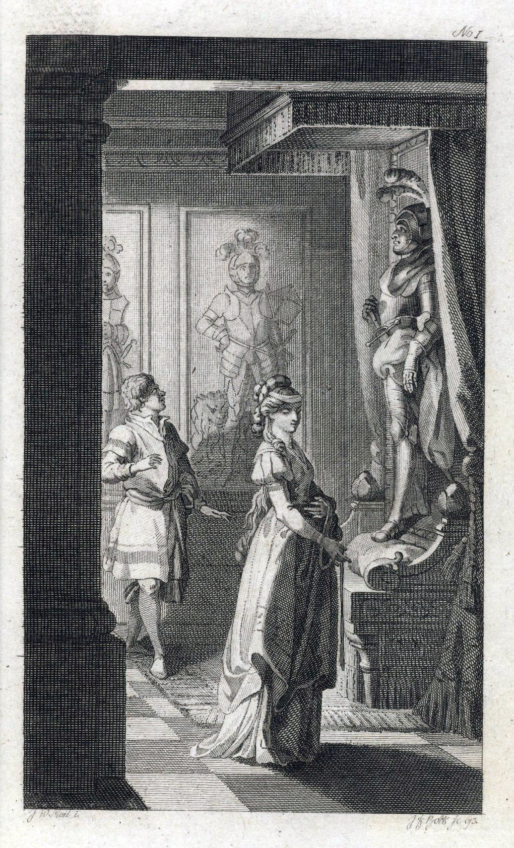 Illustration, plate I, for The Castle of Otranto, printed in Berlin, 1794, by Horace Walpole. Illustration by Johann Wilhelm Meil (1733-1805), engraved by Johann Friedrich Bolt (1769-1836). *EC75 W1654 764cℓ, Houghton Library, Harvard University